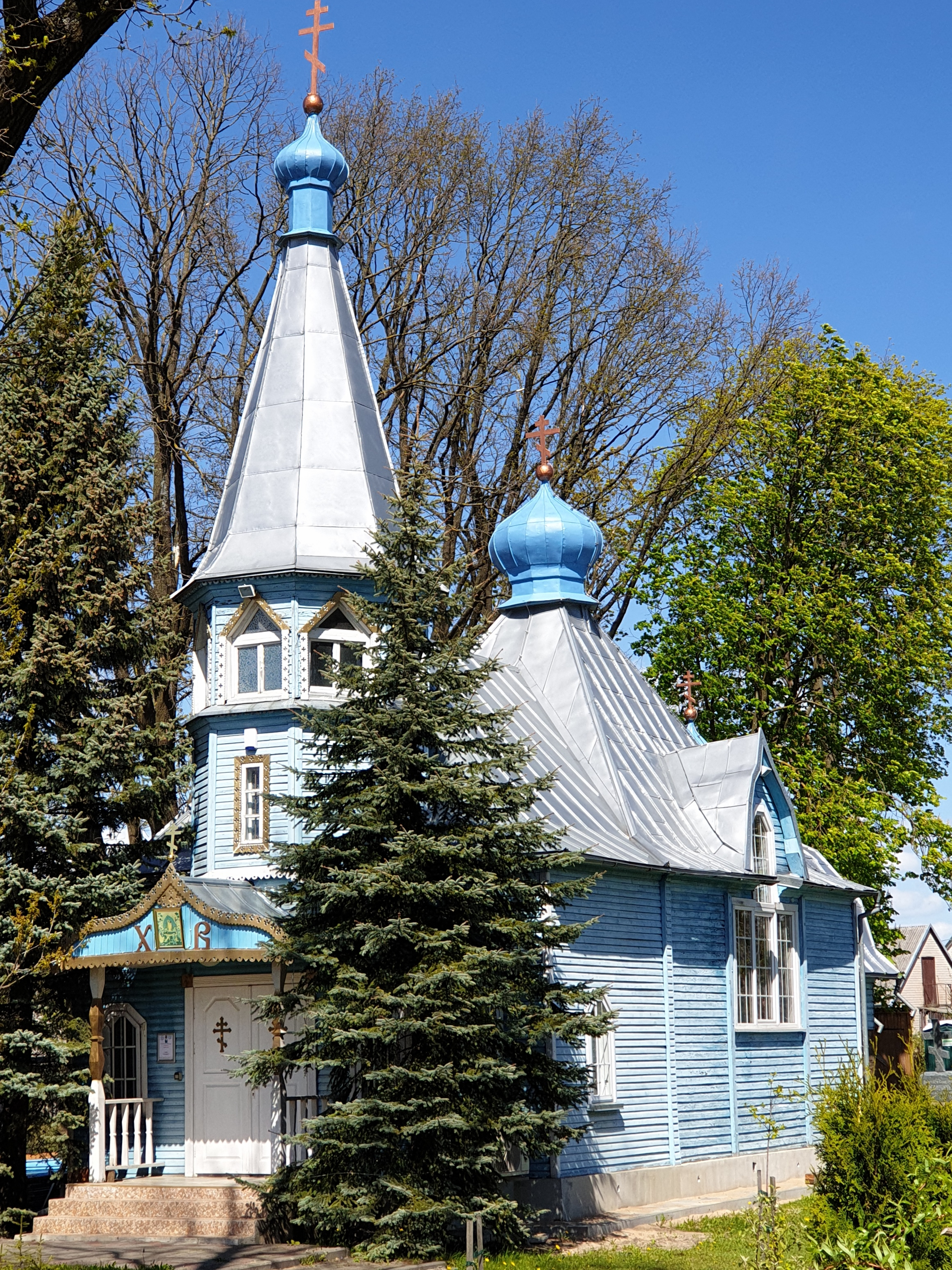 Orthodox church in Mažeikiai, May 2019